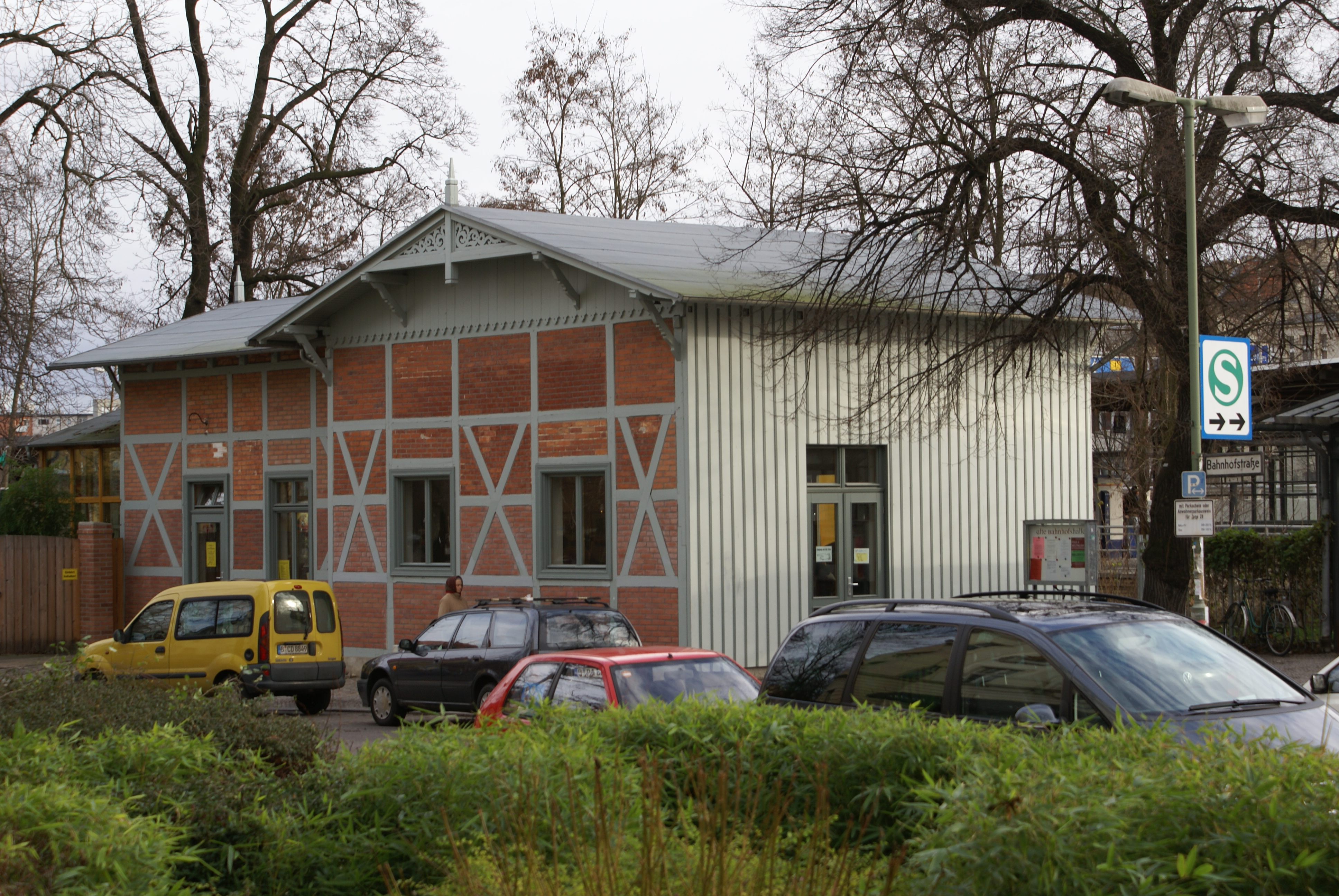 Former entrance hall of Friedenau S-Bahn station, Berlin